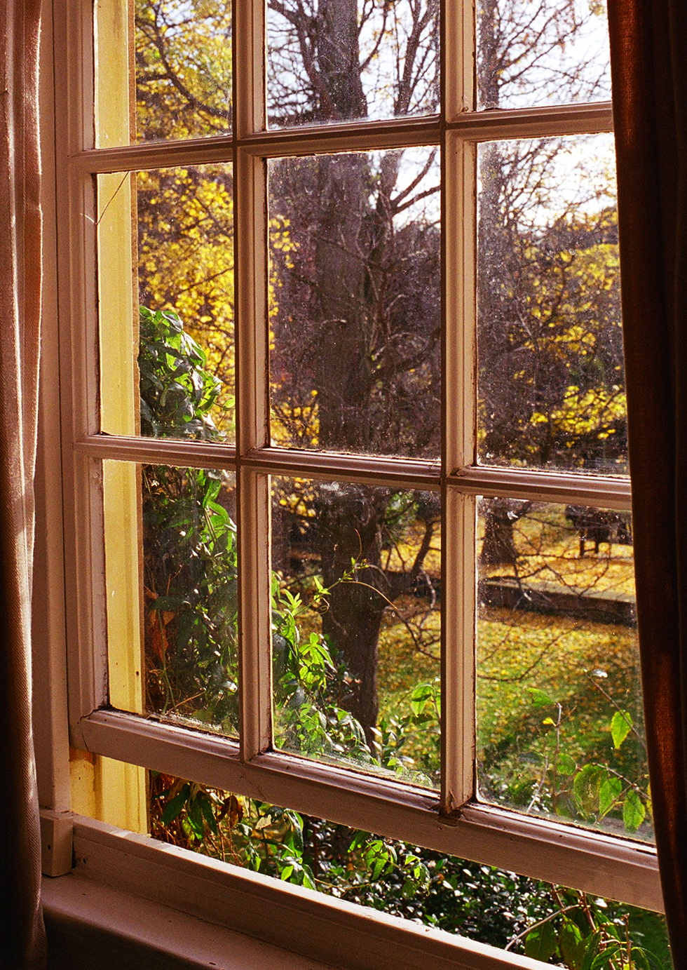 The gardens at Holywell Manor in Autumn, Balliol College, Oxford.